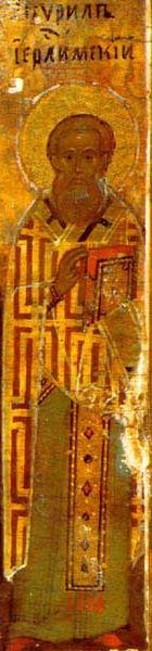 Cyril of Jerusalem